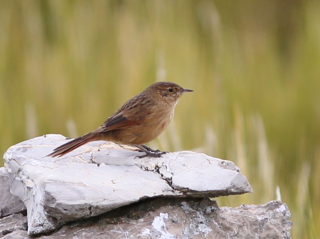 Streak-backed Canastero; Junin Lake, Junin, Peru